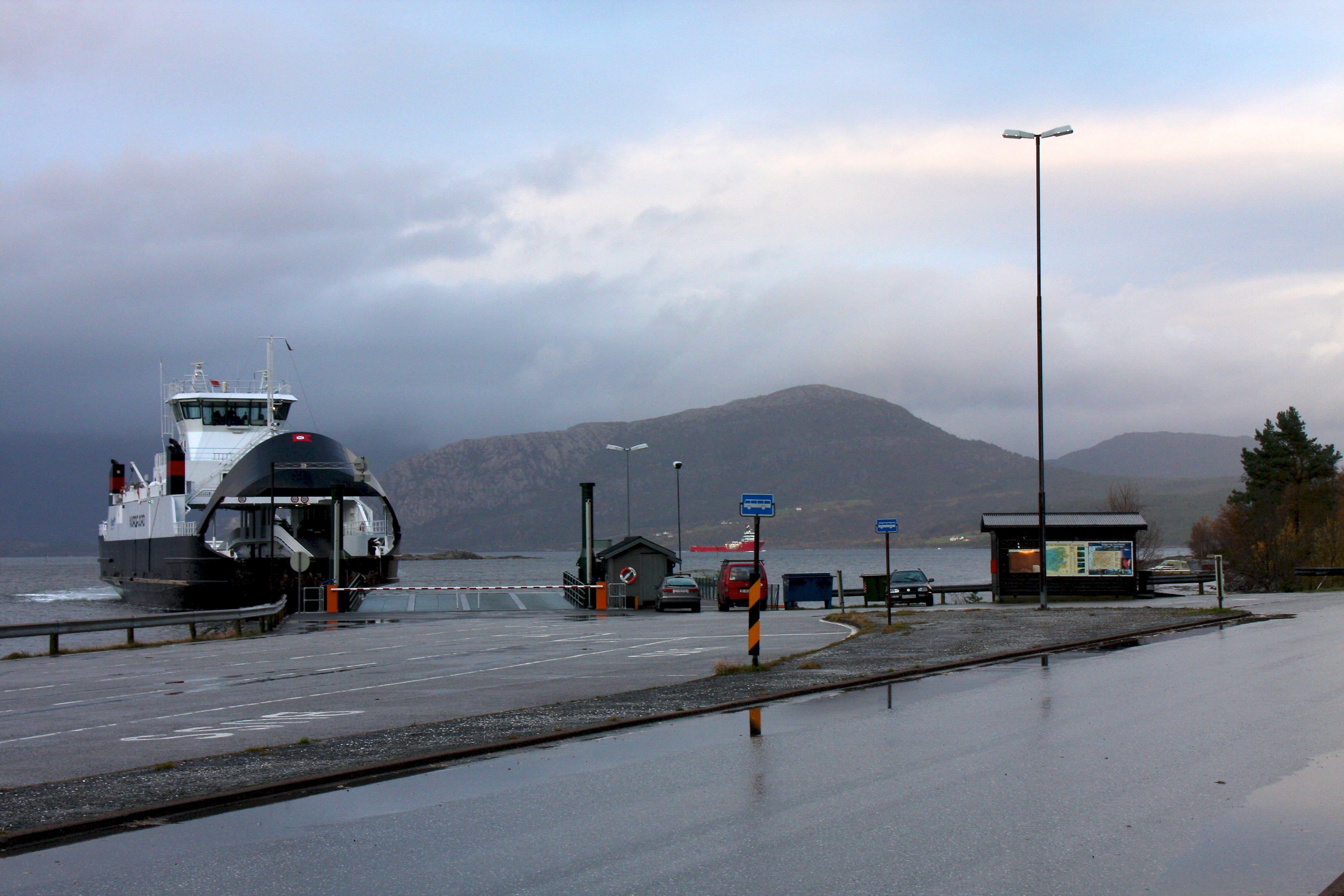 Rutledal in Gulen municipality, Norway.